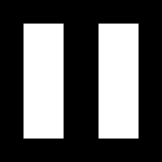 Sailemblem of the Division II Olympic class